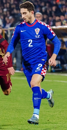 Šime Vrsaljko